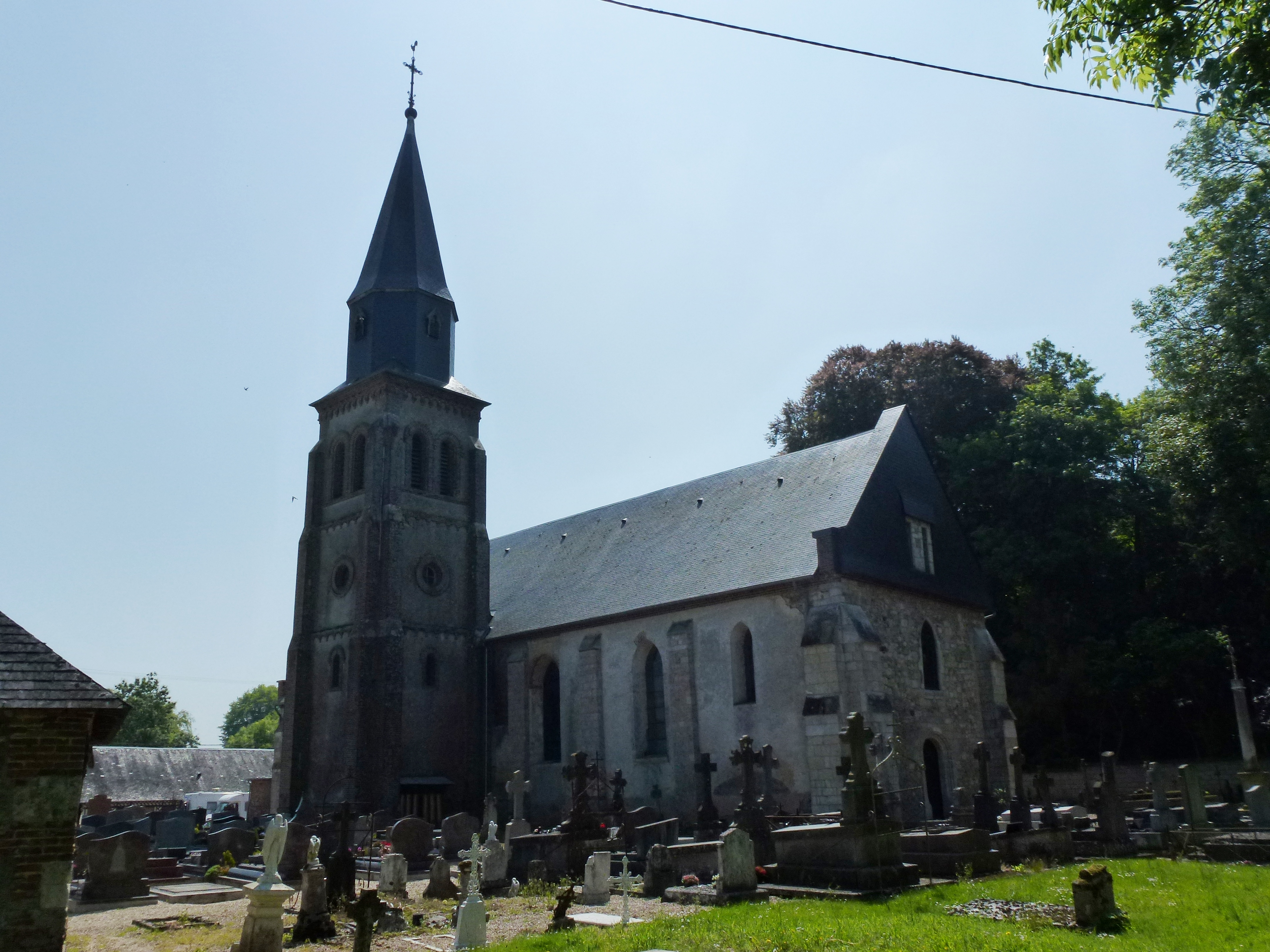 Saint-Aubin-de-Scellon (Eure-Fr) église